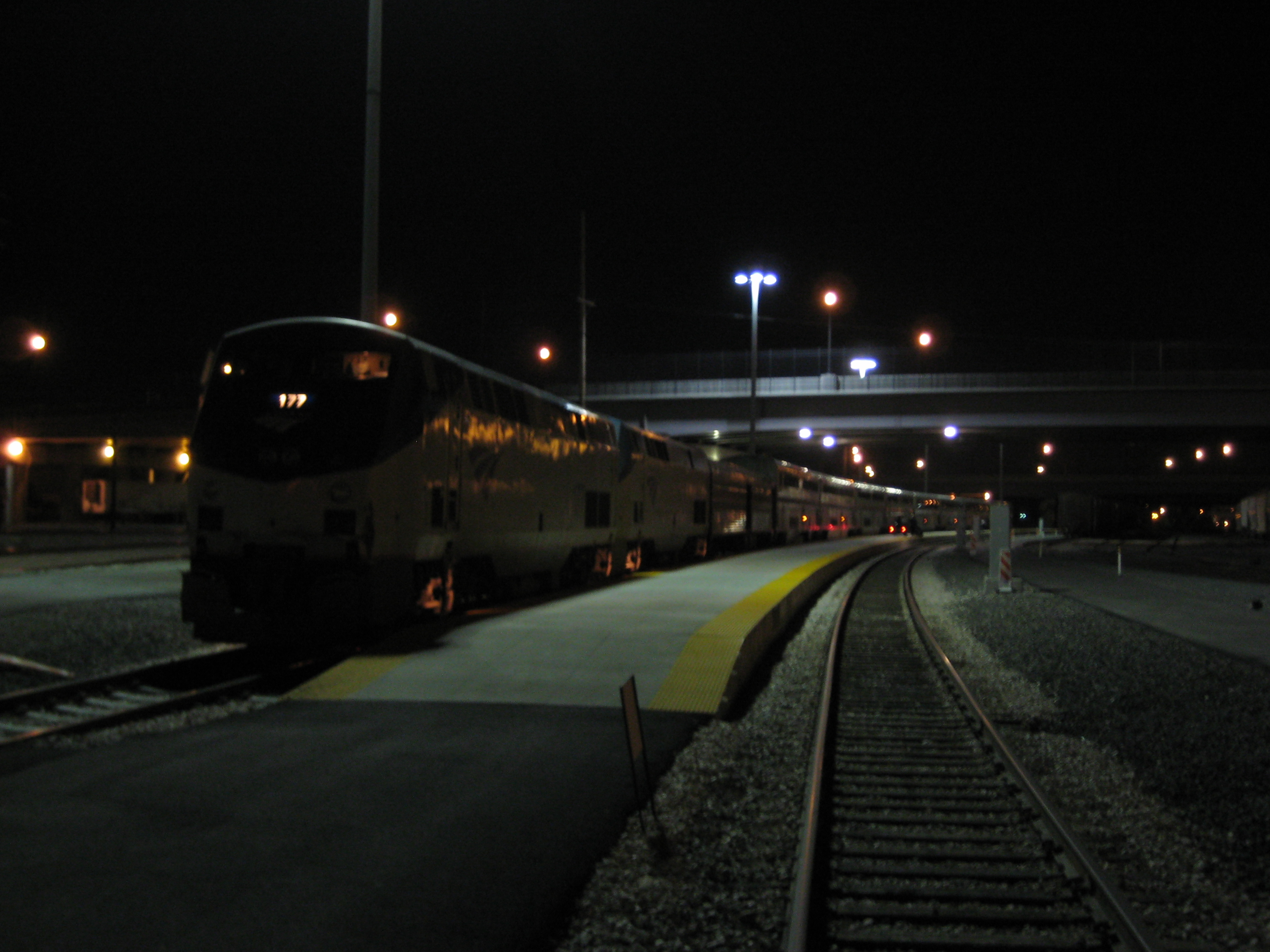 Salt Lake City Intermodal Hub California Zephyr 2